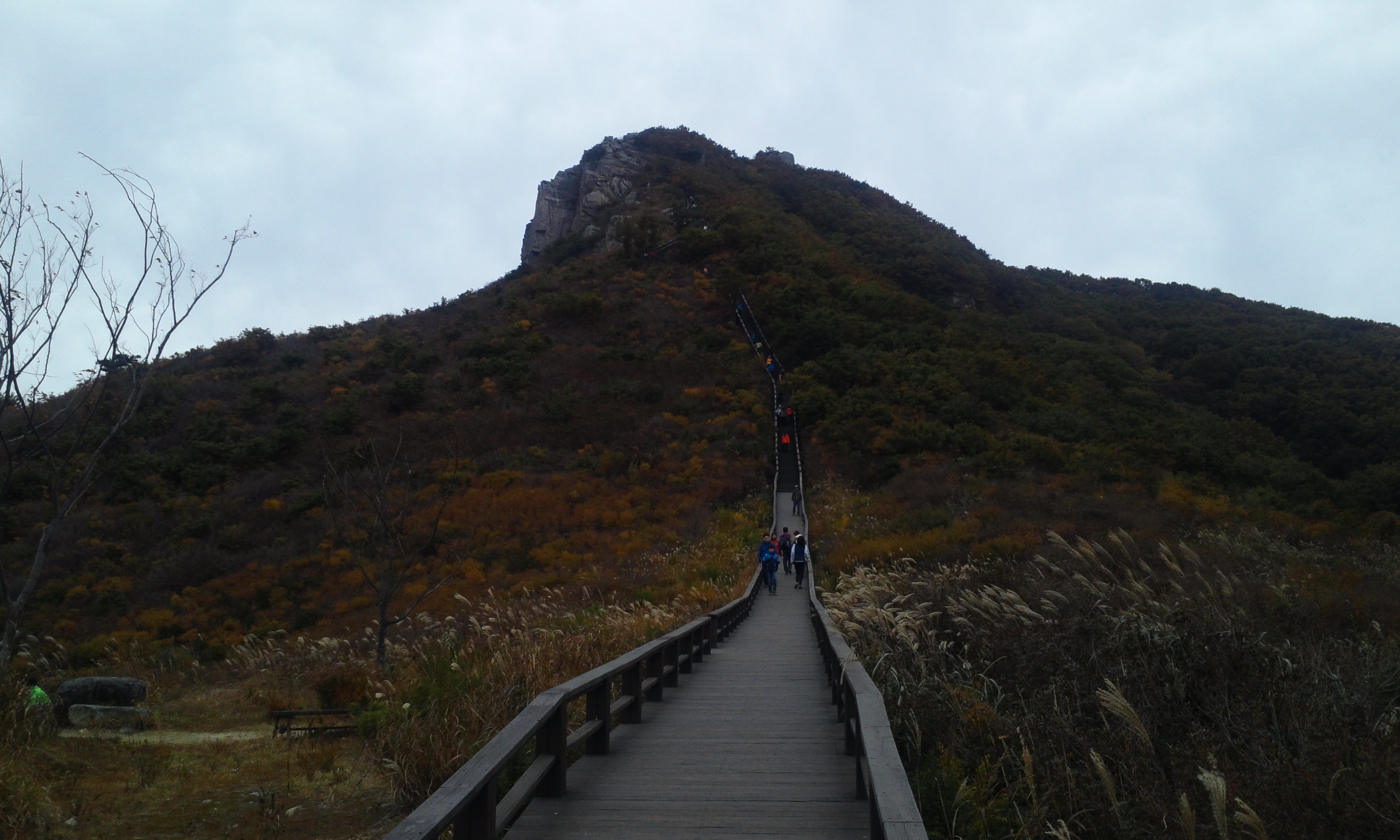 Hwangmaesan Mountain located in Hapcheon, Gyeongsangnam-do on October 12nd, 2014